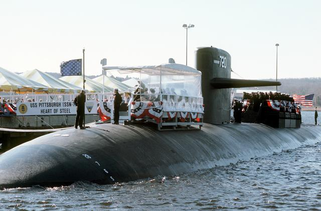 USS Pittsburgh (SSN-720). Commissioning Ceremony, Naval Submarine Base, Groton CT.